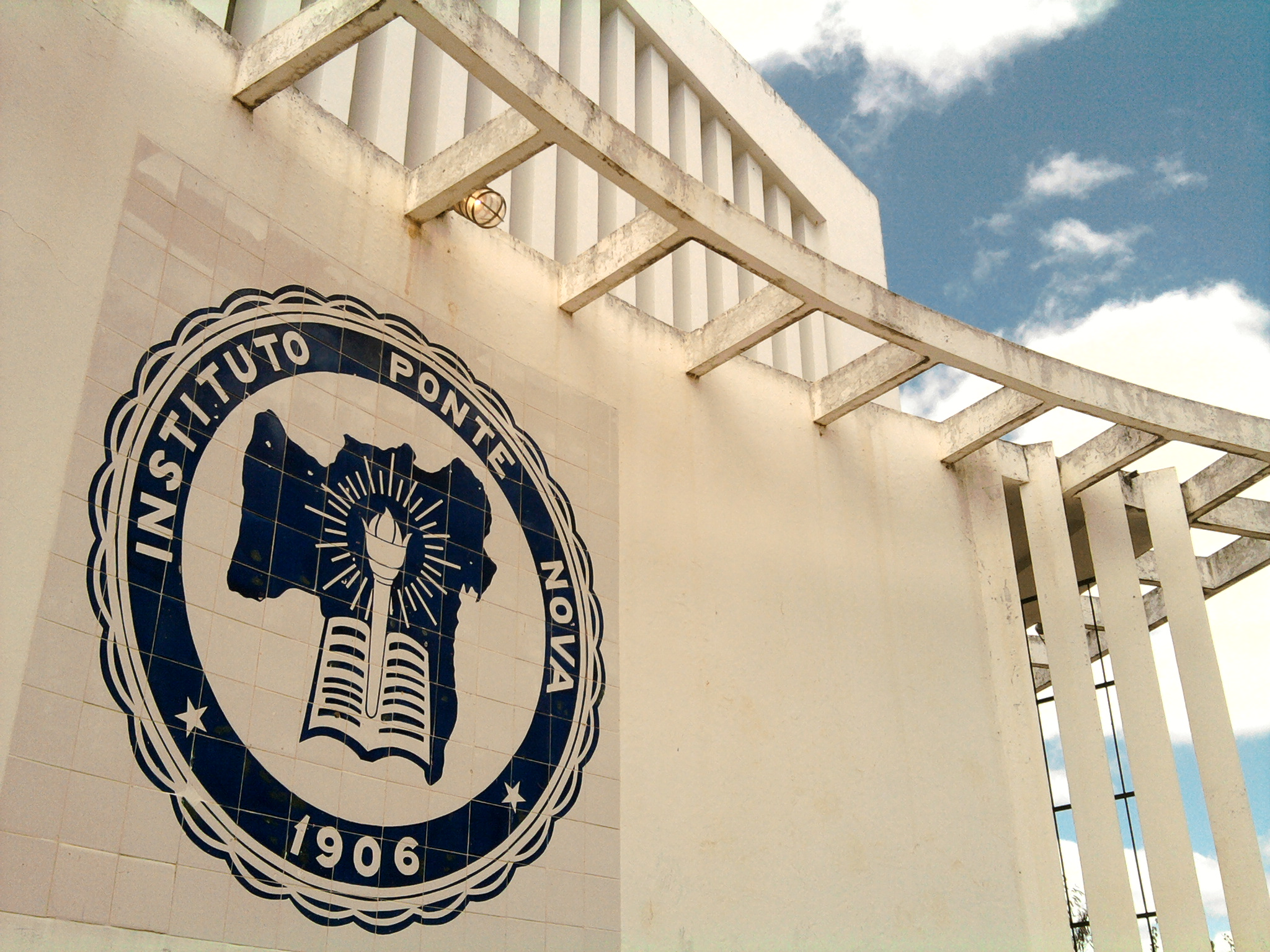 Instituto Ponte Nova is a school foundaded in 1906 in center of Bahia, Chapada Diamantina, Brazil bay North Americans